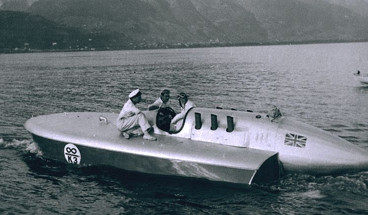 Blue Bird K3 and Sir Malcolm Campbell in Italy, 1937